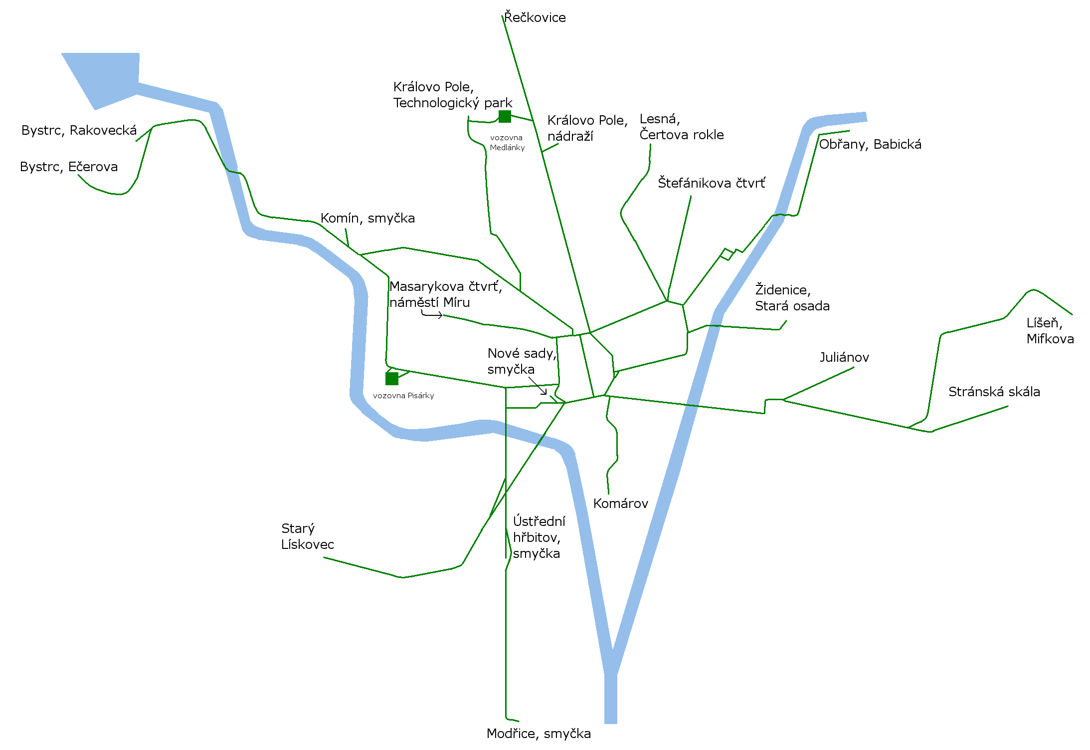 Tram network in Brno (situation on 1.01.2009)